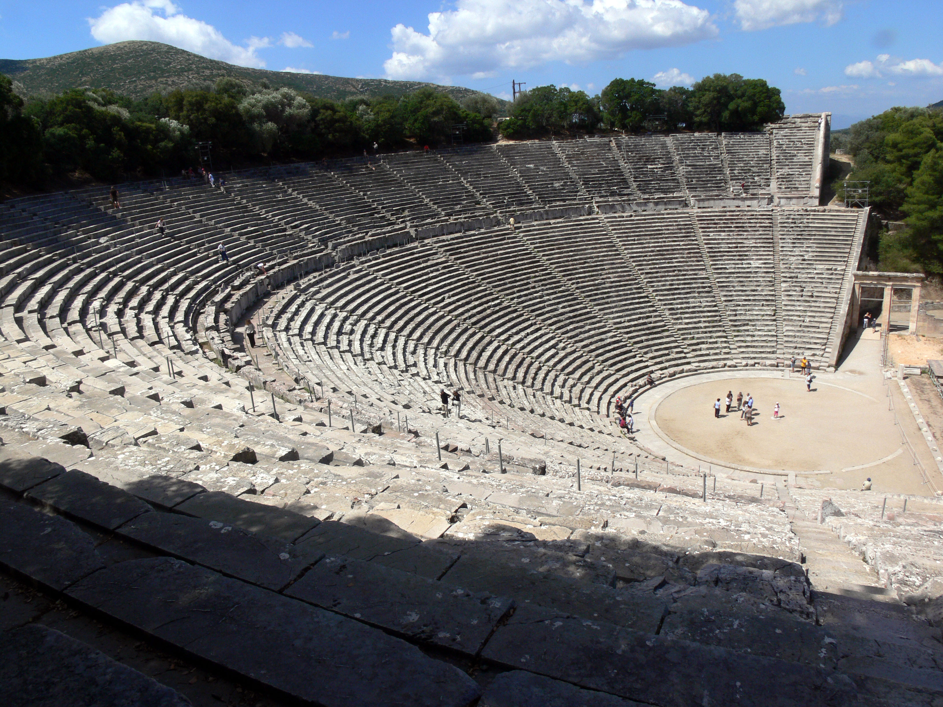 Amphitheater in Epidaurus